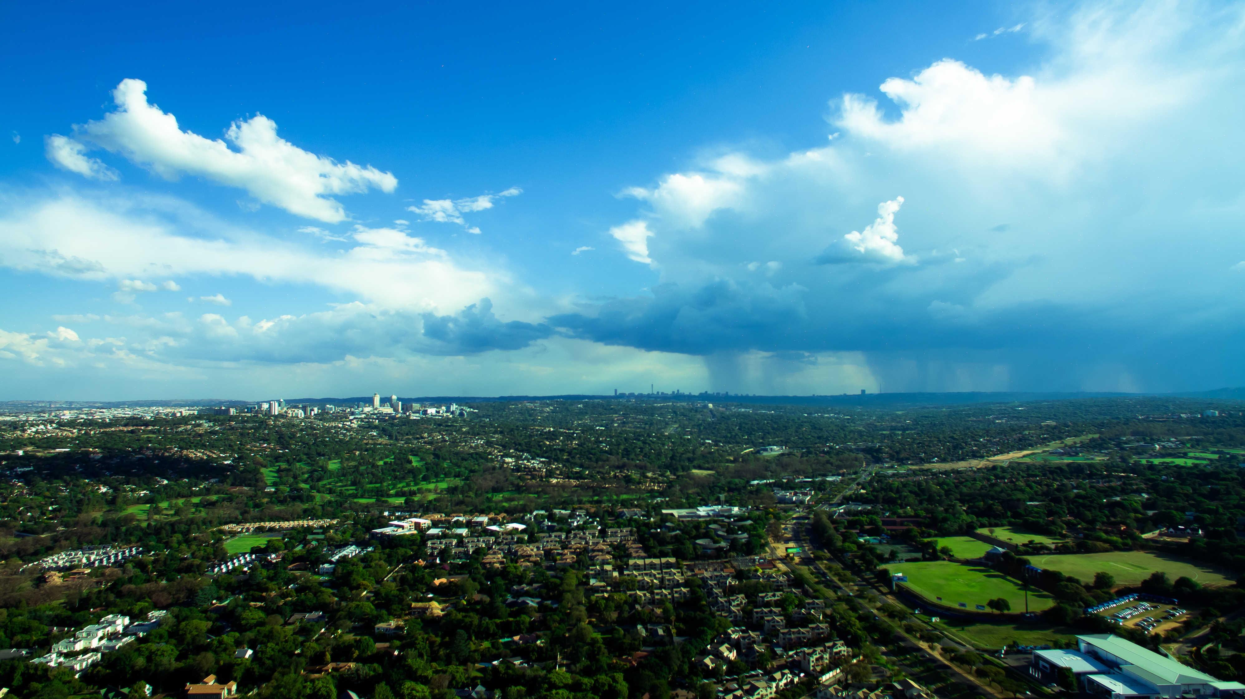 The ever expanding city of Johannesburg is one of Africa's largest and most vibrant urban locations. Johannesburg's warm summer days are coupled with electrifying thunderstorms in the afternoon that help to cool this busy city. Commonly referred to as Joburg, the city is home to 6 million trees which are a treasured site among the growing urbanization and development.